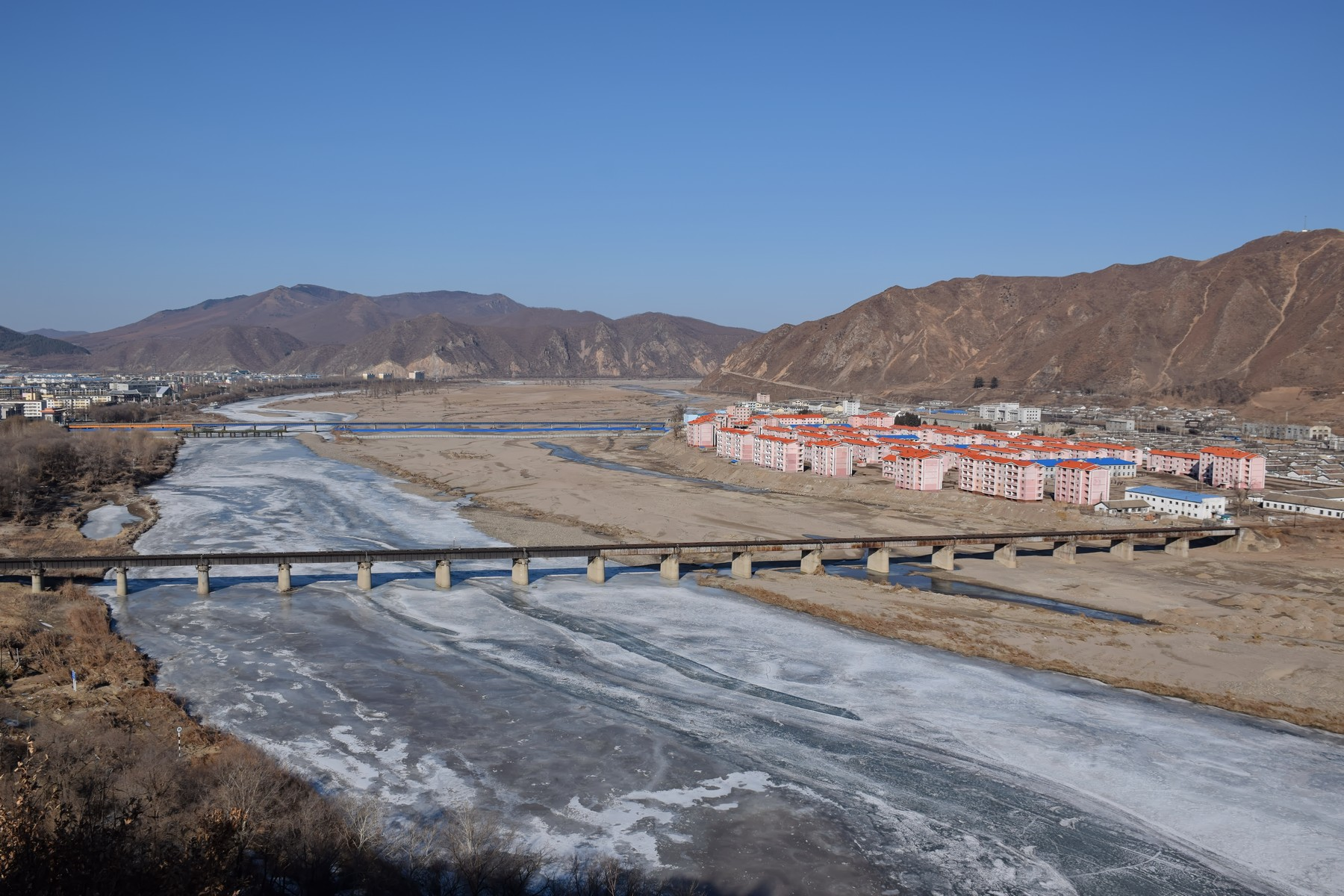 Aerial view of Tumen River at Namyang Workers' District, Onsong, North Korea, from Tumen, China (China is at the left side of Tumen River, while North Korea is at the right side of Tumen River.)